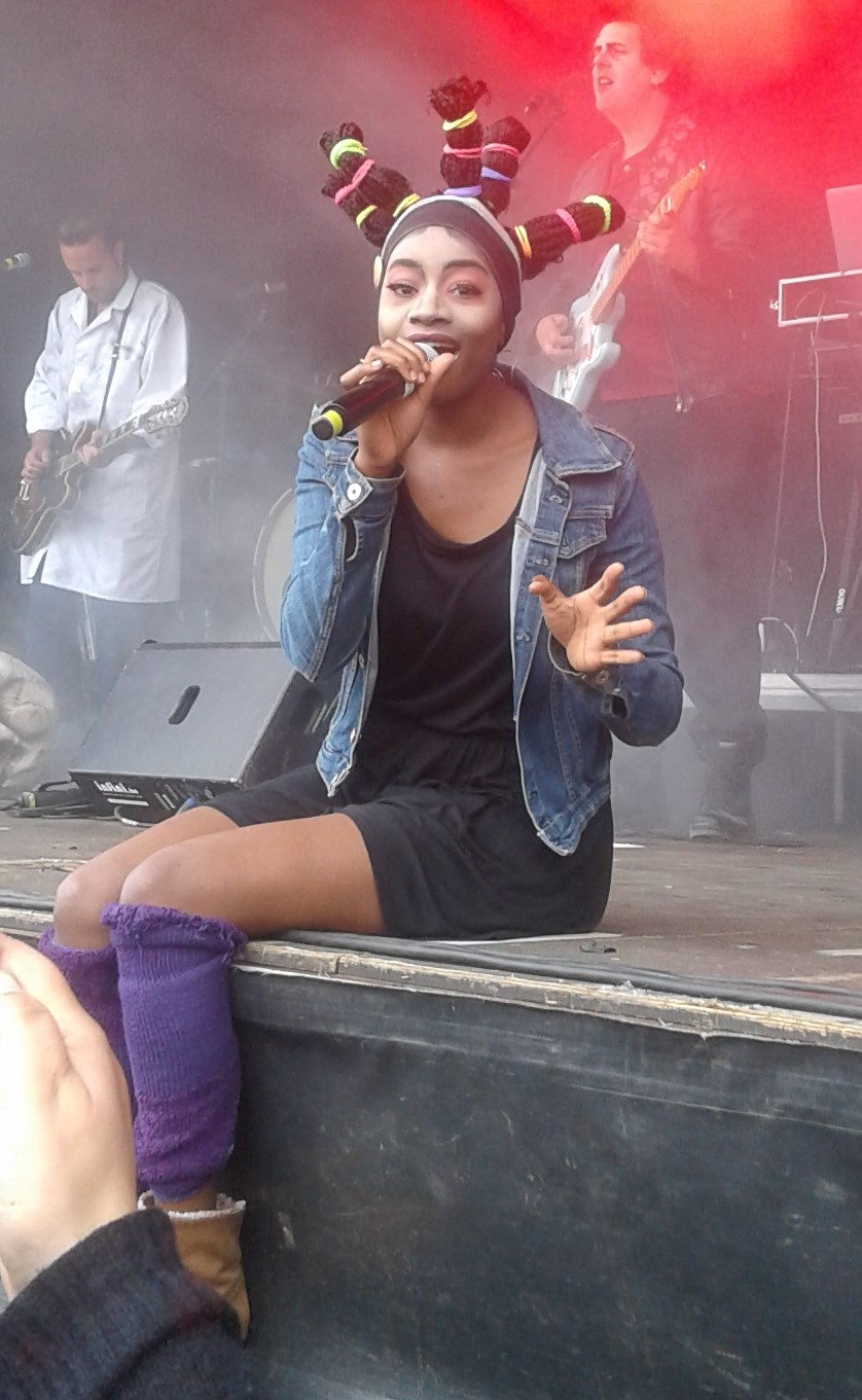 The Belgian singersLéonie Wasukulu and Saule (in the background) in the musical "Zombie Kids" by Saule, in Welkenraedt on the 13th of May 2018